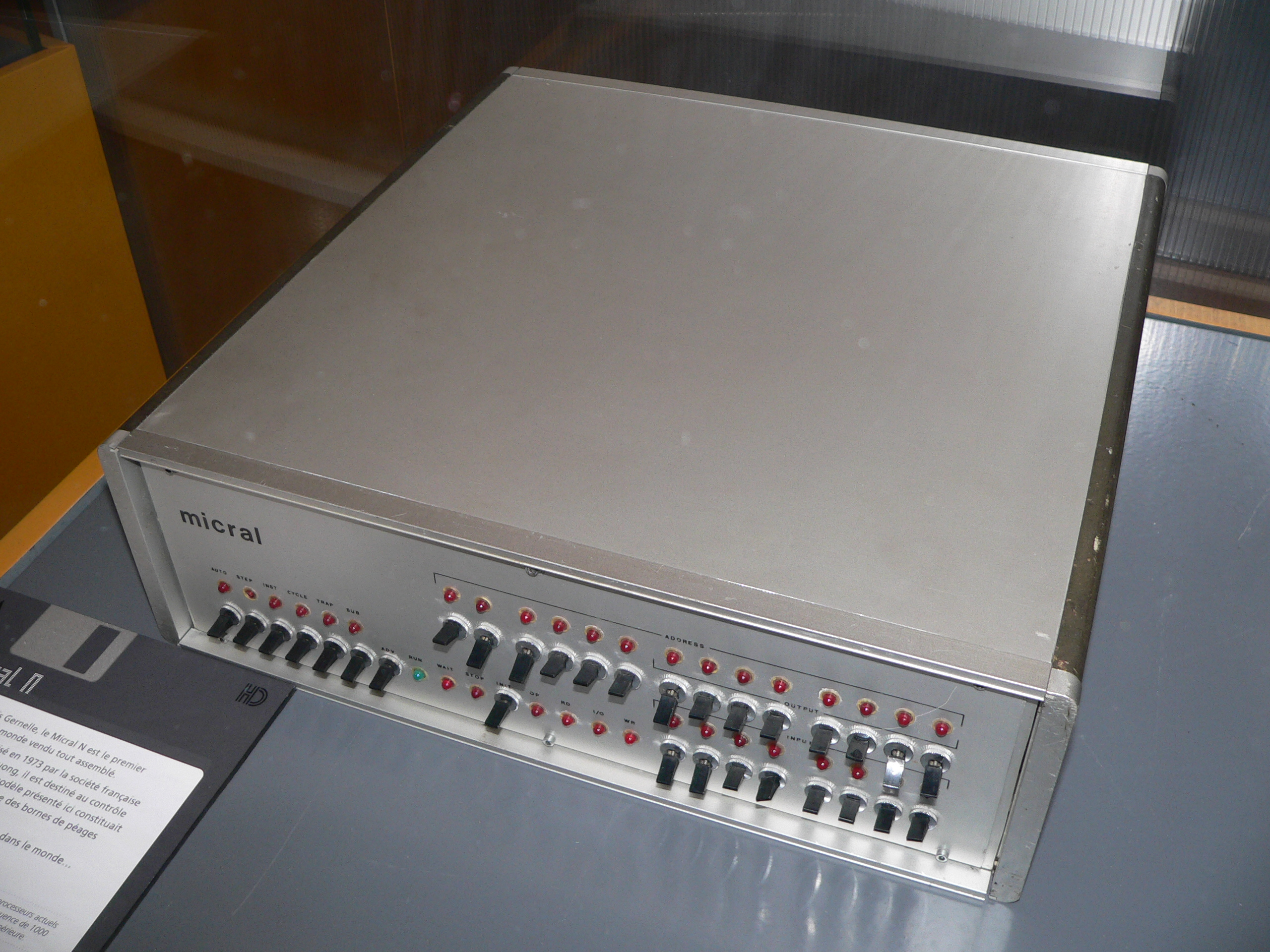 A Micral, an early microcomputer, seen at the espace numérique at the Ćité des Sciences et de l'Industrie in Paris, France